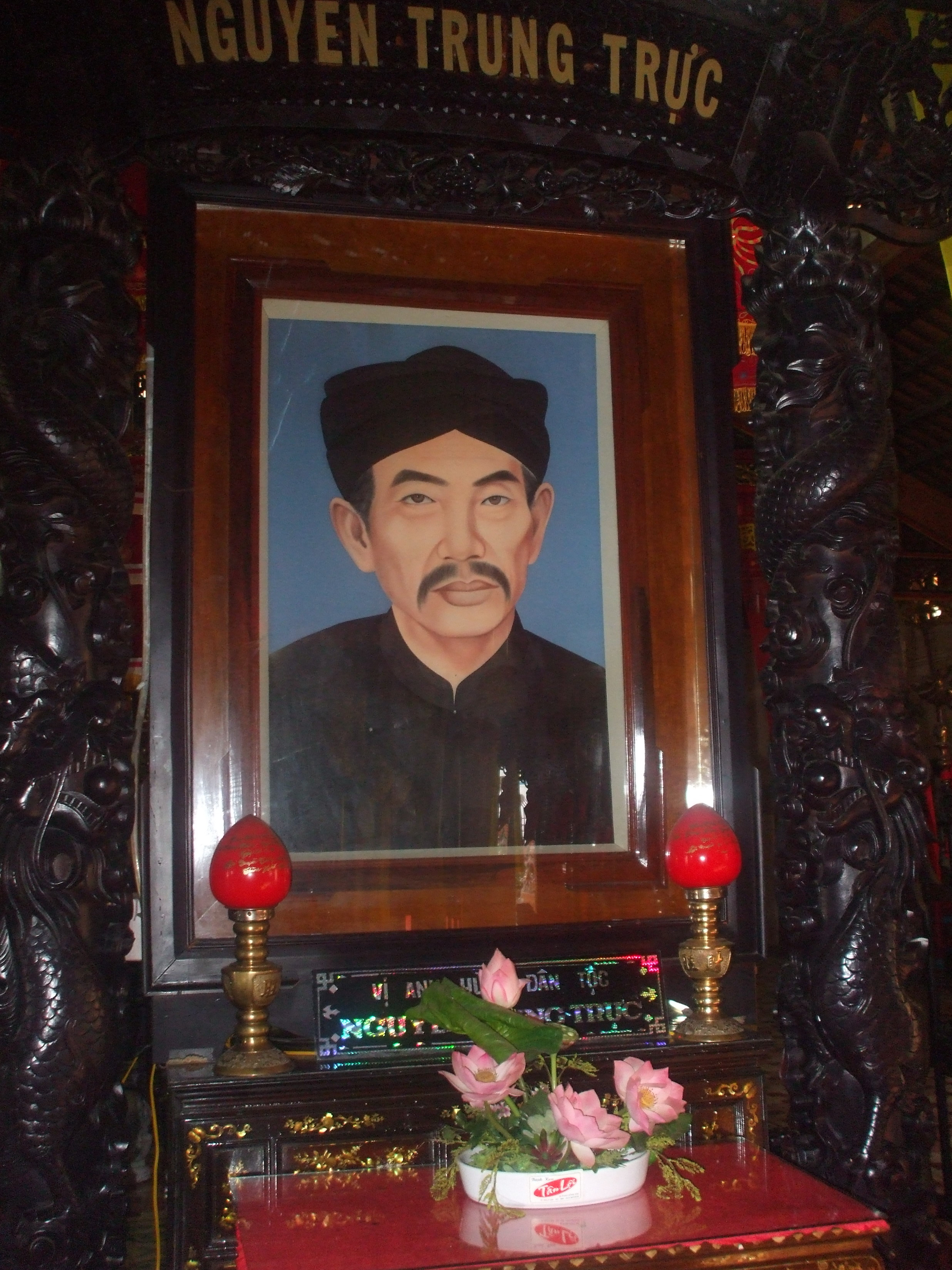 Portrait of Nguyen Trung Truc